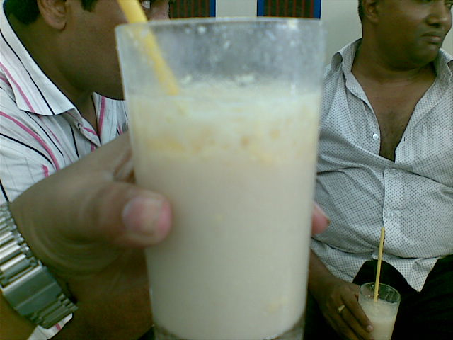 Lassi at Old Dhaka. Lassi is a popular and traditional yogurt-based drink which originated in the Punjab region of the Indian subcontinent.